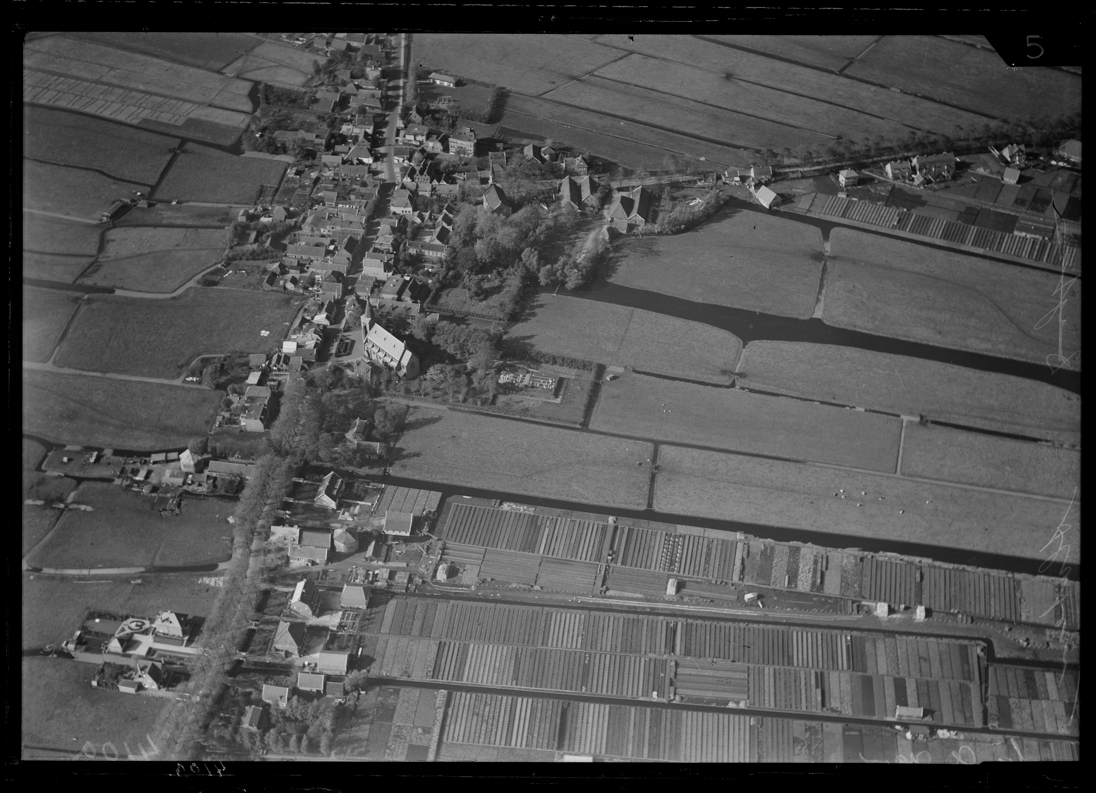 Aerial photograph of Sloten (Amsterdam), The Netherlands